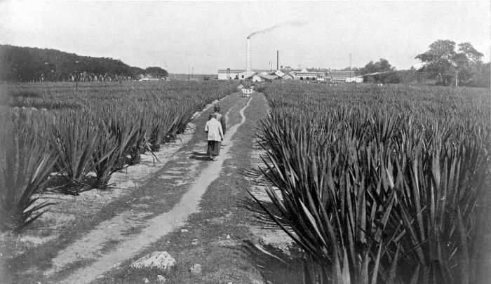 Reproduction of a photo negative (undated). Path in the middle of an intensive industrial culture of agave leading to a company in Indonesia producing plant fibers, which provided the agave fiber for weaving.